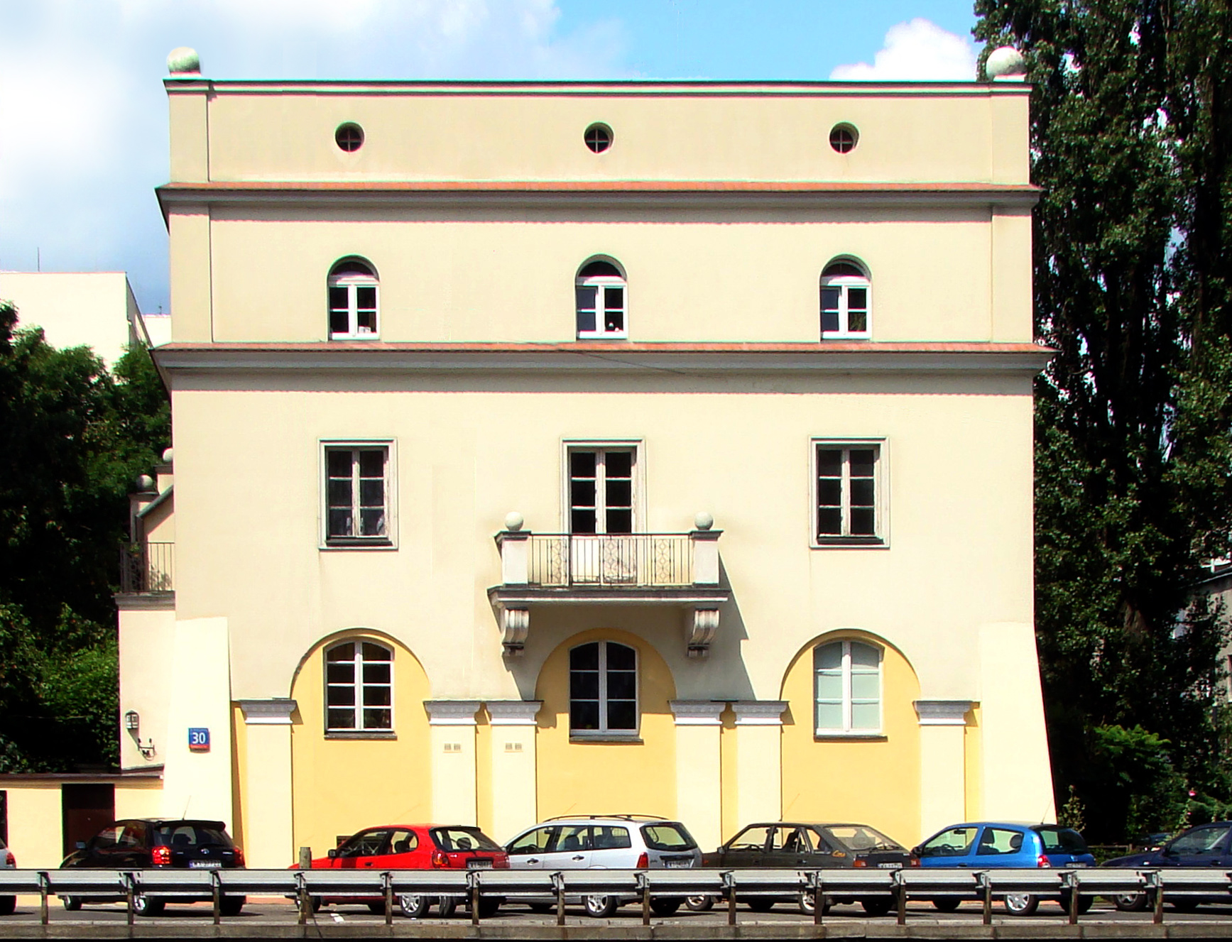 Apartment house, 30 Aleja Armii Ludowej St. Warsaw, Polish renaissance style, built 1920s